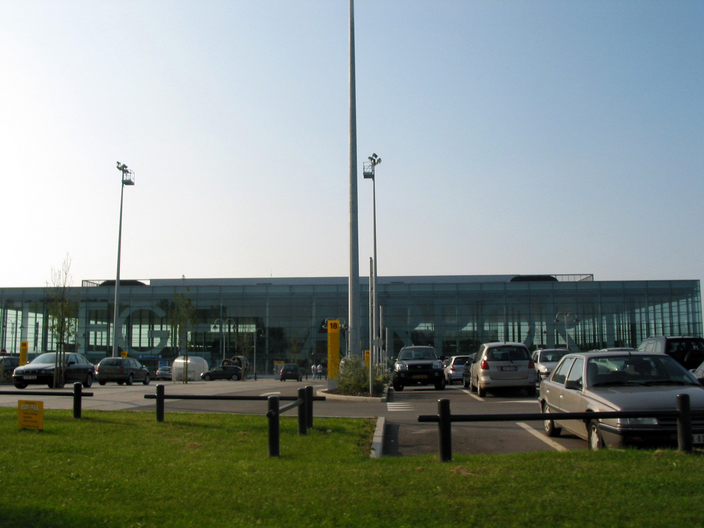 Bierset (Belgium), the Liège air terminal in the xommunity of Grâce-Hollogne.